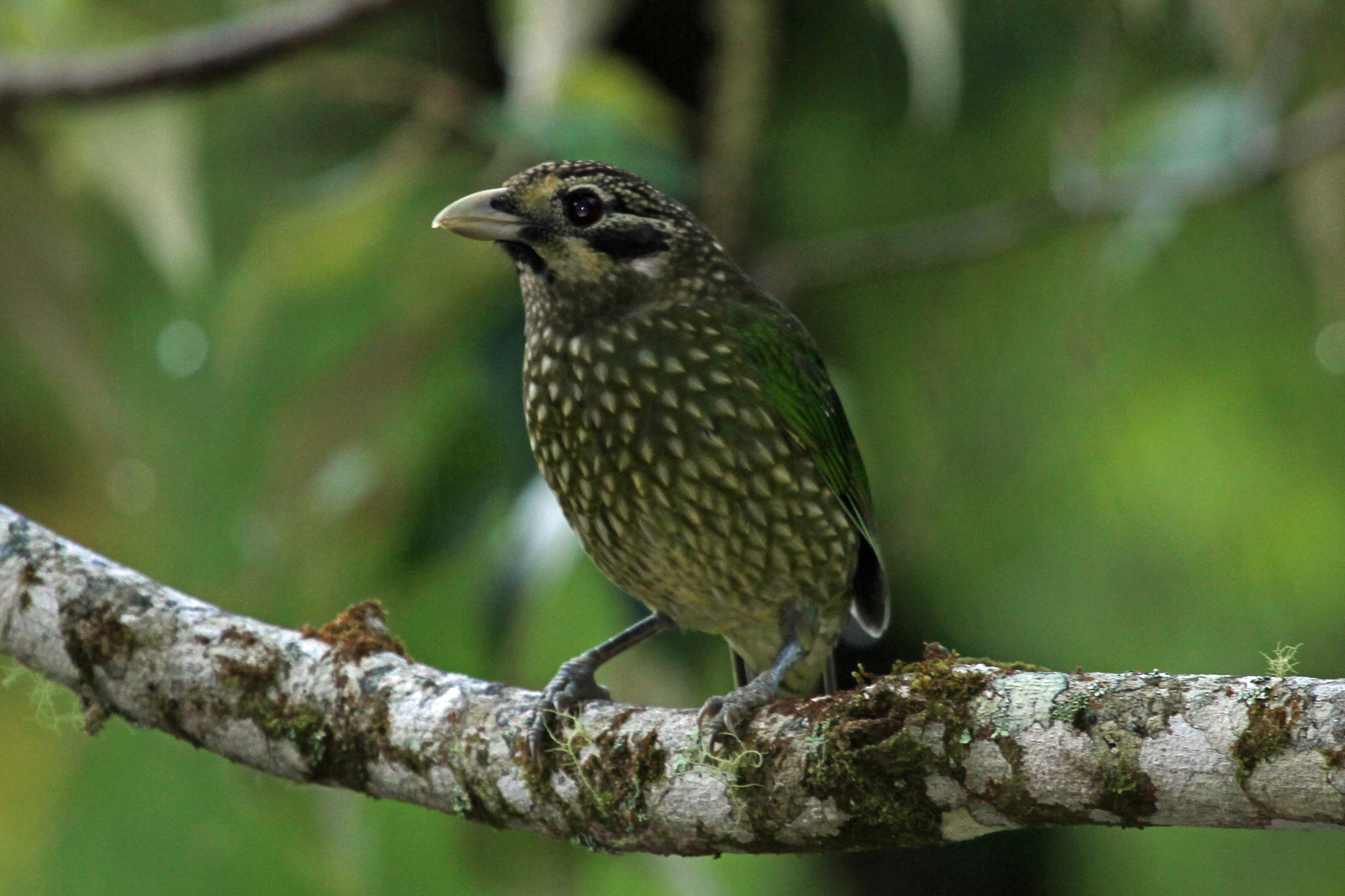 A Spotted Catbird in Daintree, Queensland, Australia.